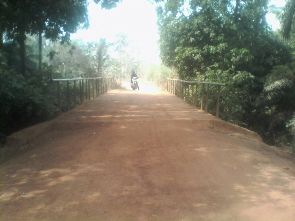 Bridge